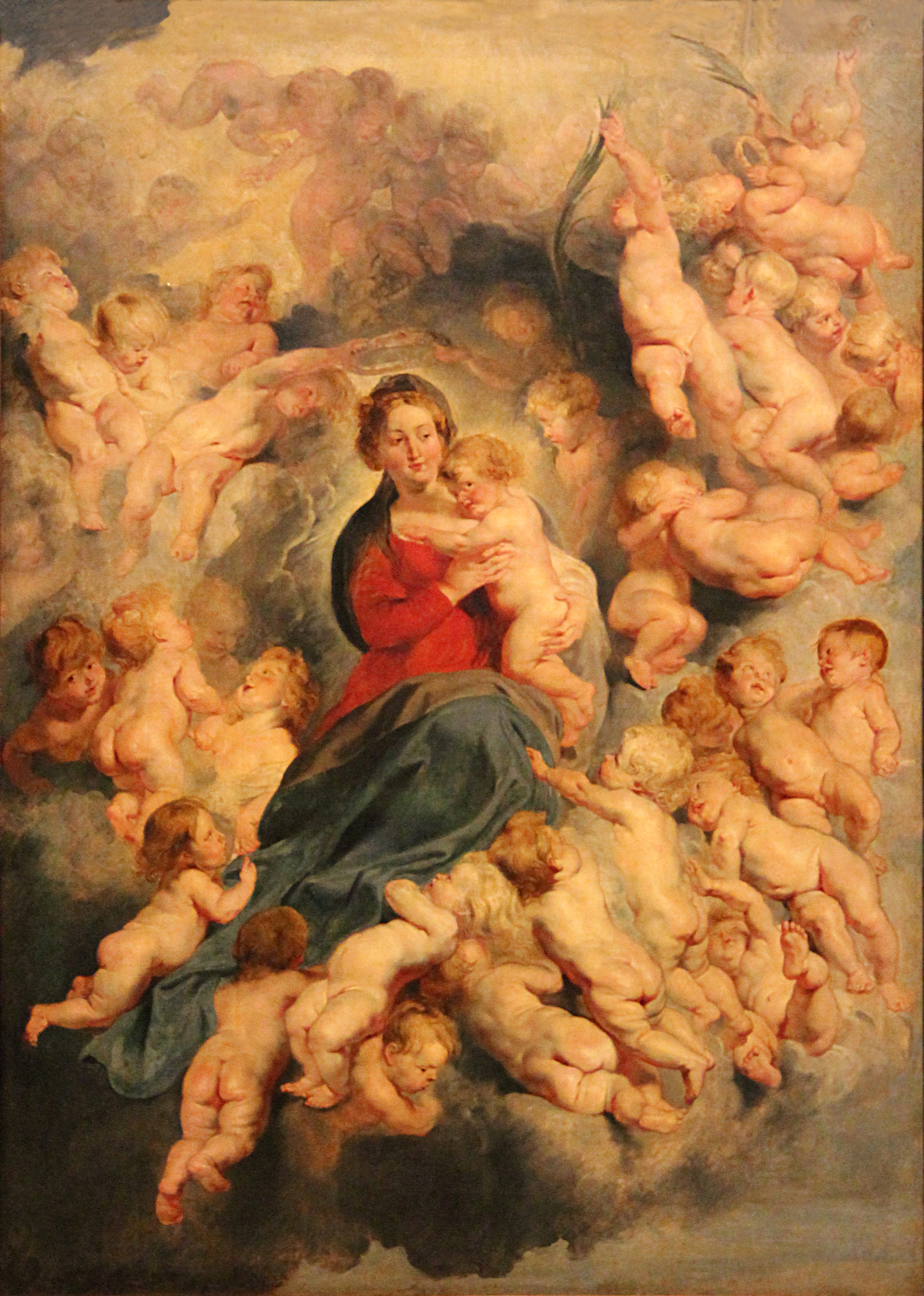 photographed during the exhibition « Rubens et son Temps » (Rubens and His Times) at the Museum of Louvre-Lens.